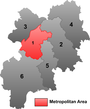 Map of Yulin in Guangxi AR